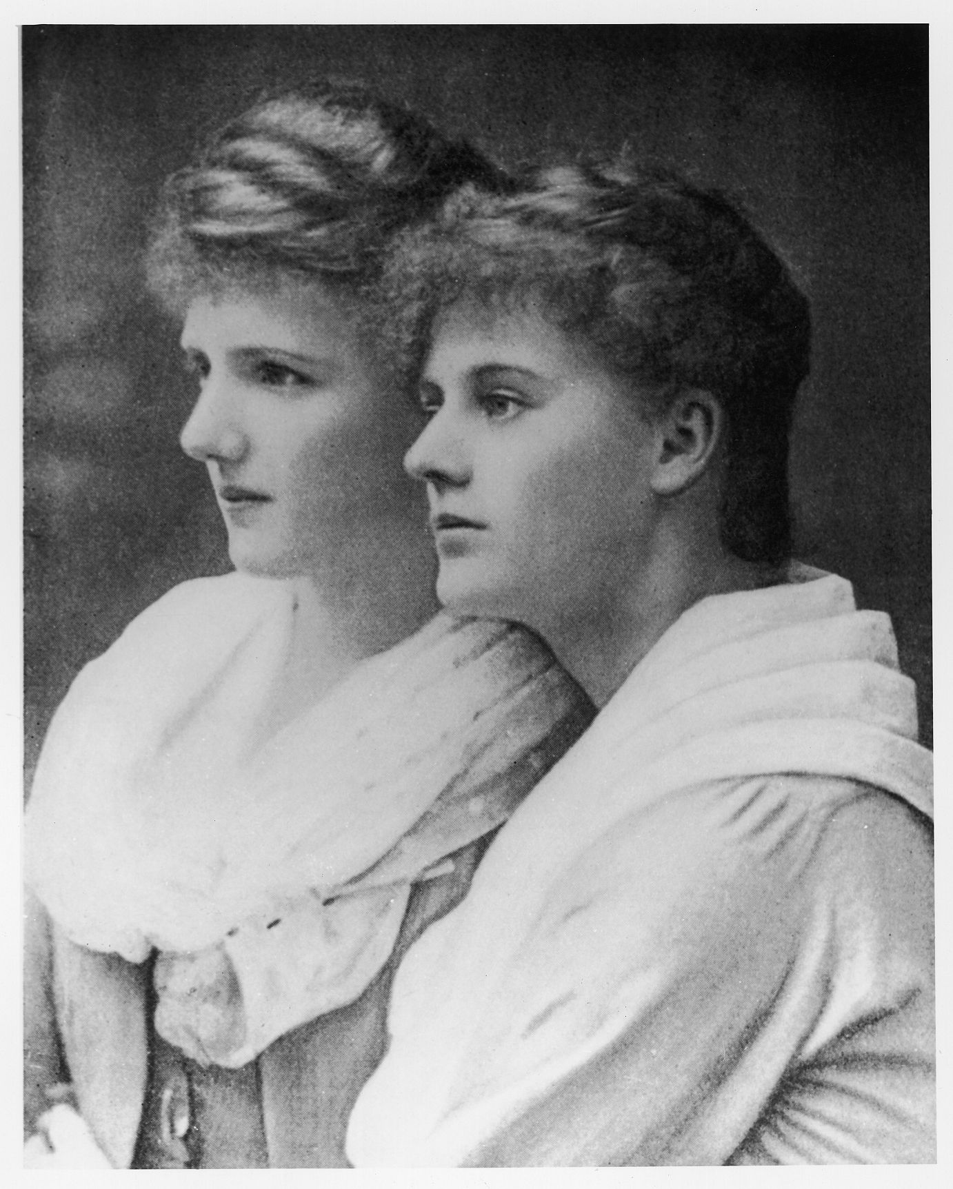 Eva Selina Laura Gore-Booth and her sister Constance Gore-Booth, later known as the Countess Markievicz